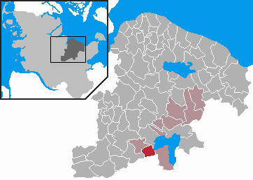 This map shows the area of the Gemeinde (municipality) Dersau in the Kreis (district) Plön, Schleswig-Holstein, Germany.